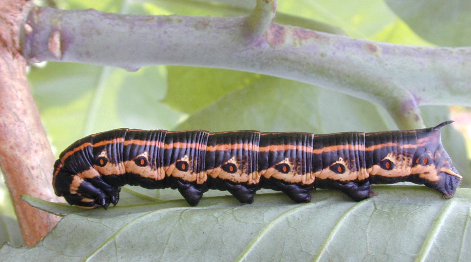 Agrius cingulata from Hawai'i, larva black morph feeding on Nicotiana.